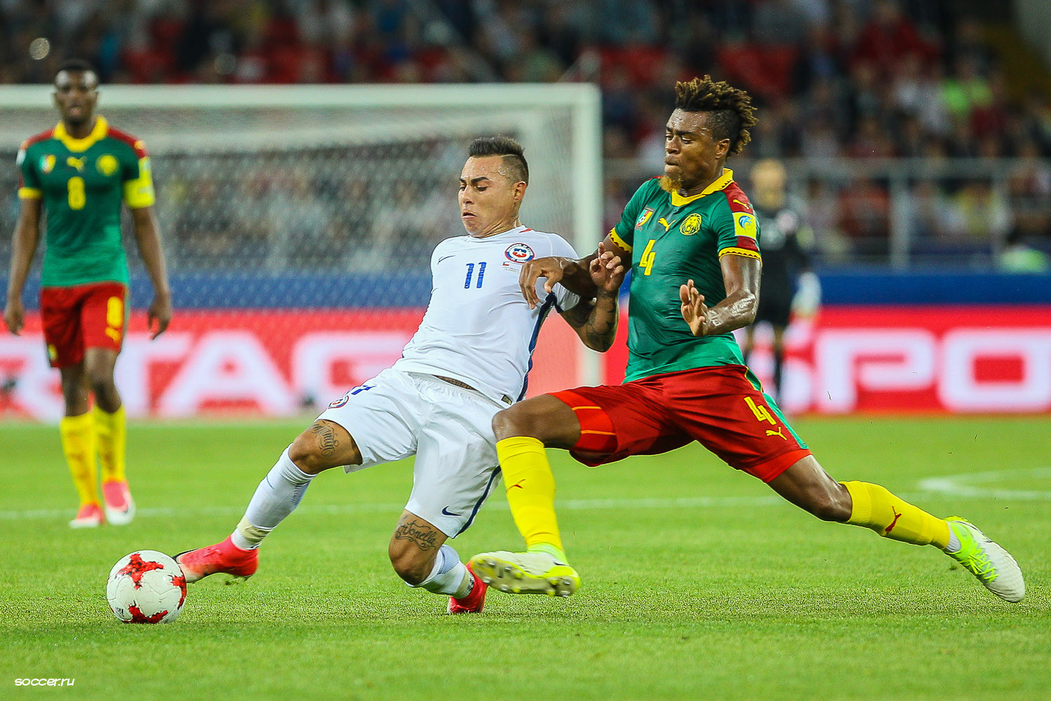 Cameroon vs Chile (0-2). FIFA Confederations Cup 2017